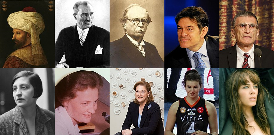 Above: Mehmed II the Conqueror · Mustafa Kemal Atatürk · Besim Ömer Akalın · Mehmet Öz · Aziz Sancar Below: Halide Edib Adıvar · Ayten Arcasoy · Güler Sabancı · Beyza Arıcı · Demet Evgar